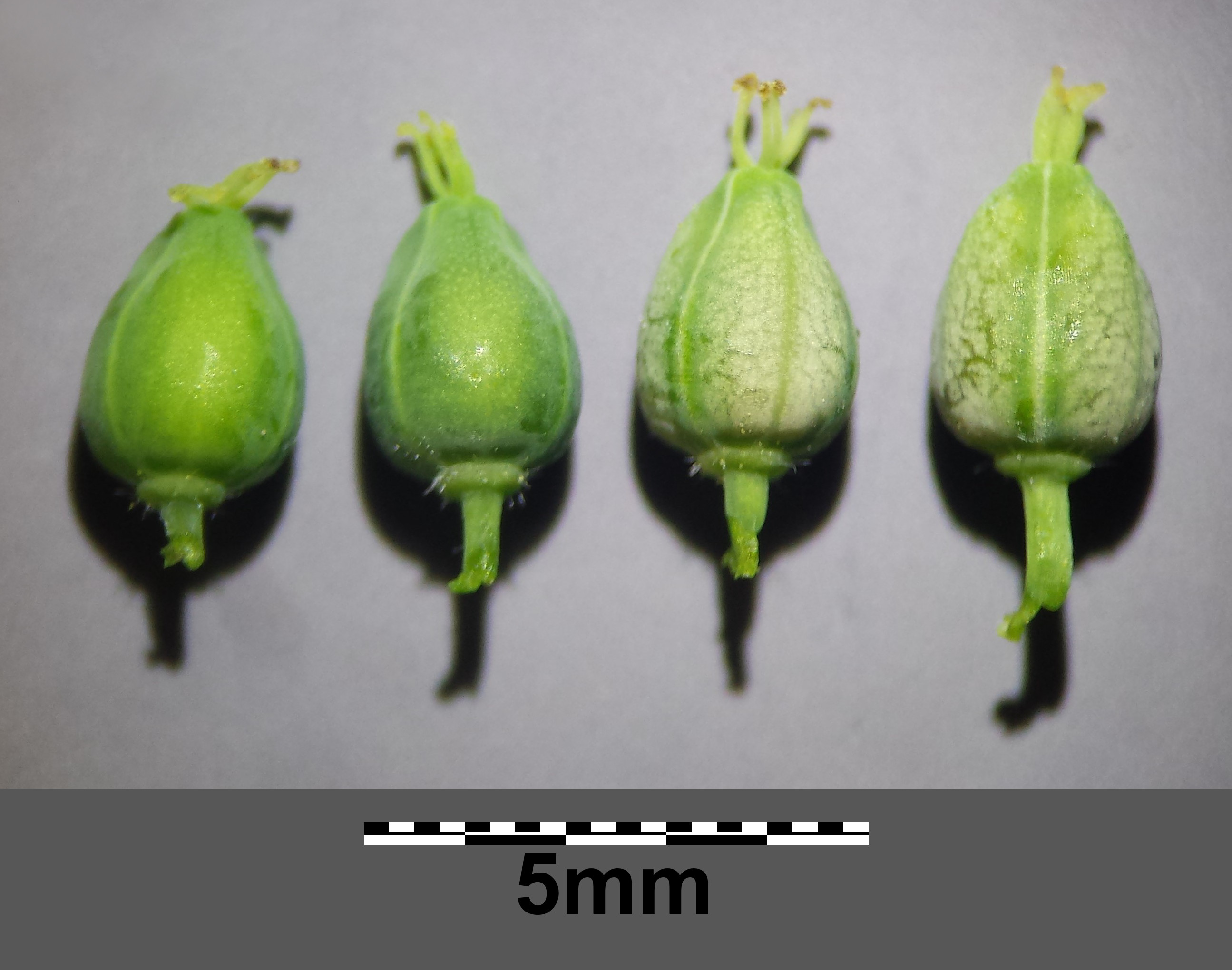 Fruits Taxonym: Euphorbia falcata (s. str.) ss Fischer et al. EfÖLS 2008 ISBN 978-3-85474-187-9 Location: next to Gebmannsberg, district Korneuburg, Lower Austria - ca. 300 m a.s.l. Habitat: field